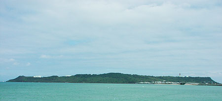 Henza Island